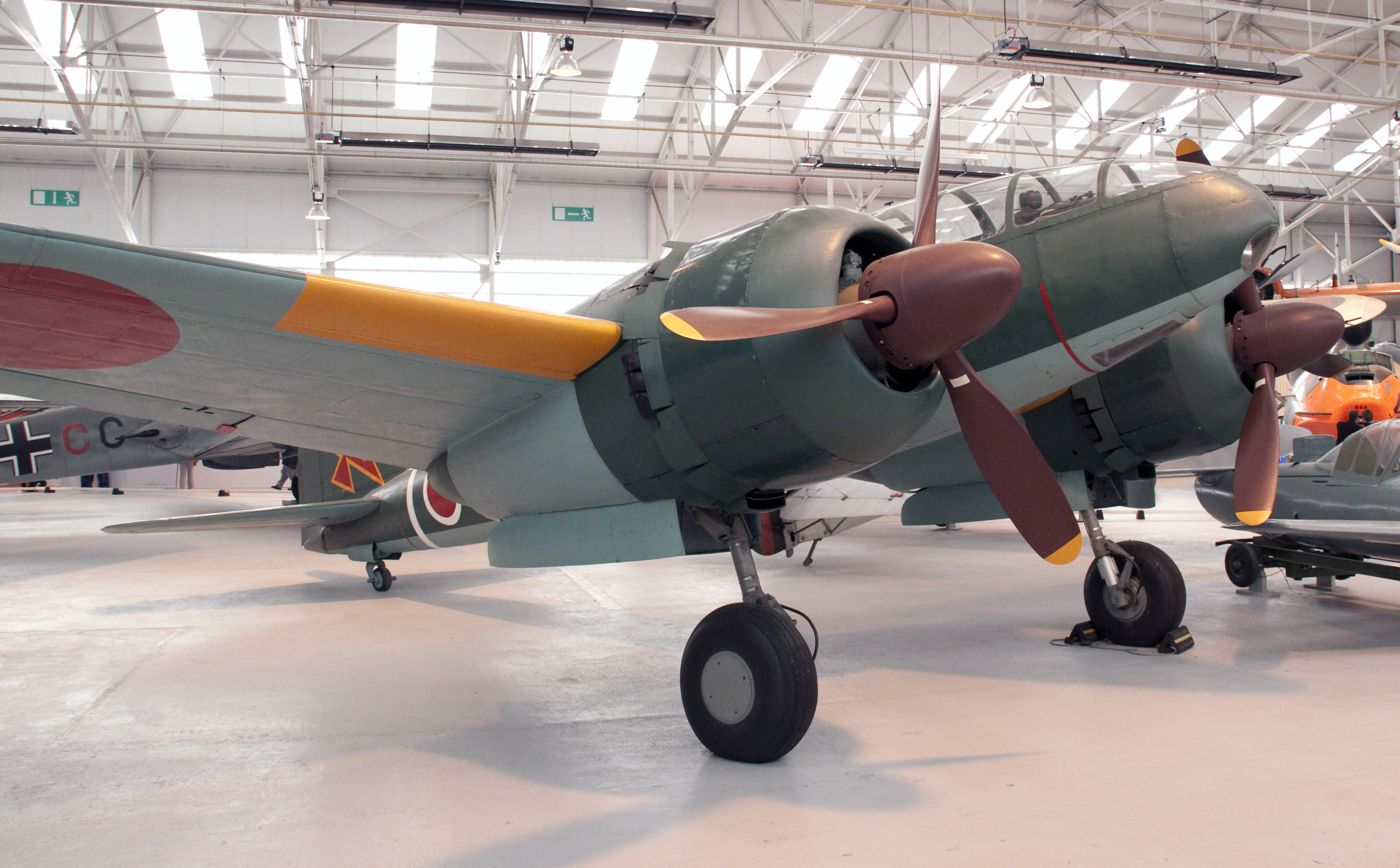 The Mitsubishi Ki-46 was a WWII Japanese twin-engined reconnaissance plane. In 1944-45, during the last days of the war, it was modified as a high altitude interceptor, with two 20 mm cannons in the nose and one 37 mm cannon in an "upwards-and-forwards" position.